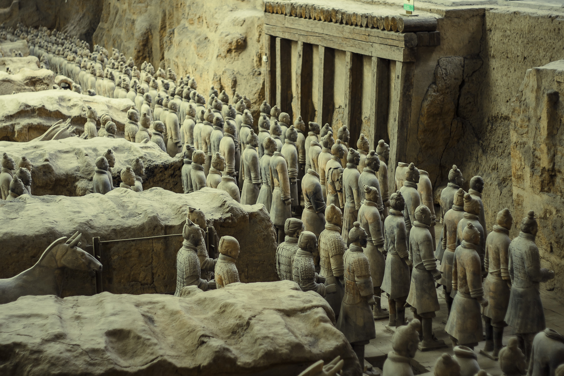 Warriors formation from backwards. Xi'an, China.